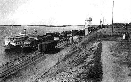 Kotlas wharves in the early 20th century